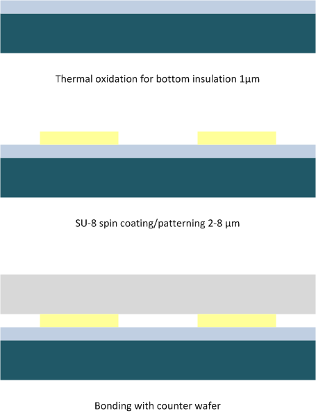 Schematic SU-8 wafer bond process.